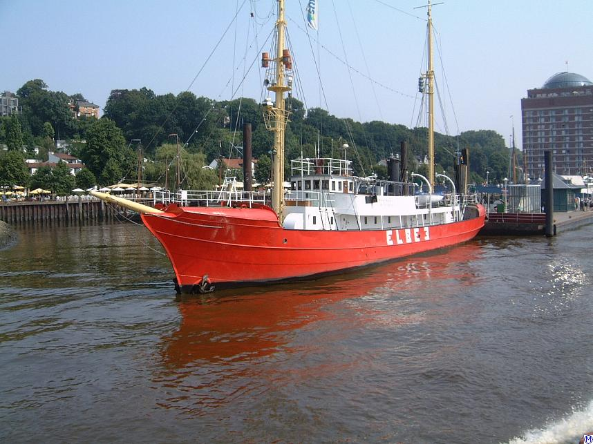 Lightvessel Elbe 3